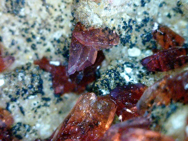 Wendwilsonite (Field of view 04 mm) Locality: Aghbar Mine (Arhbar Mine), Aghbar, Bou Azer District (Bou Azzer District), Tazenakht, Ouarzazate Province, Souss-Massa-Draâ Region, Morocco Original description: Red crystals of Wendwilsonite on the matrix; Photo and collection Fernando Brederodes.